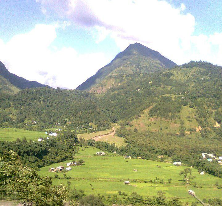 Picture of gulmi rupakot VDC